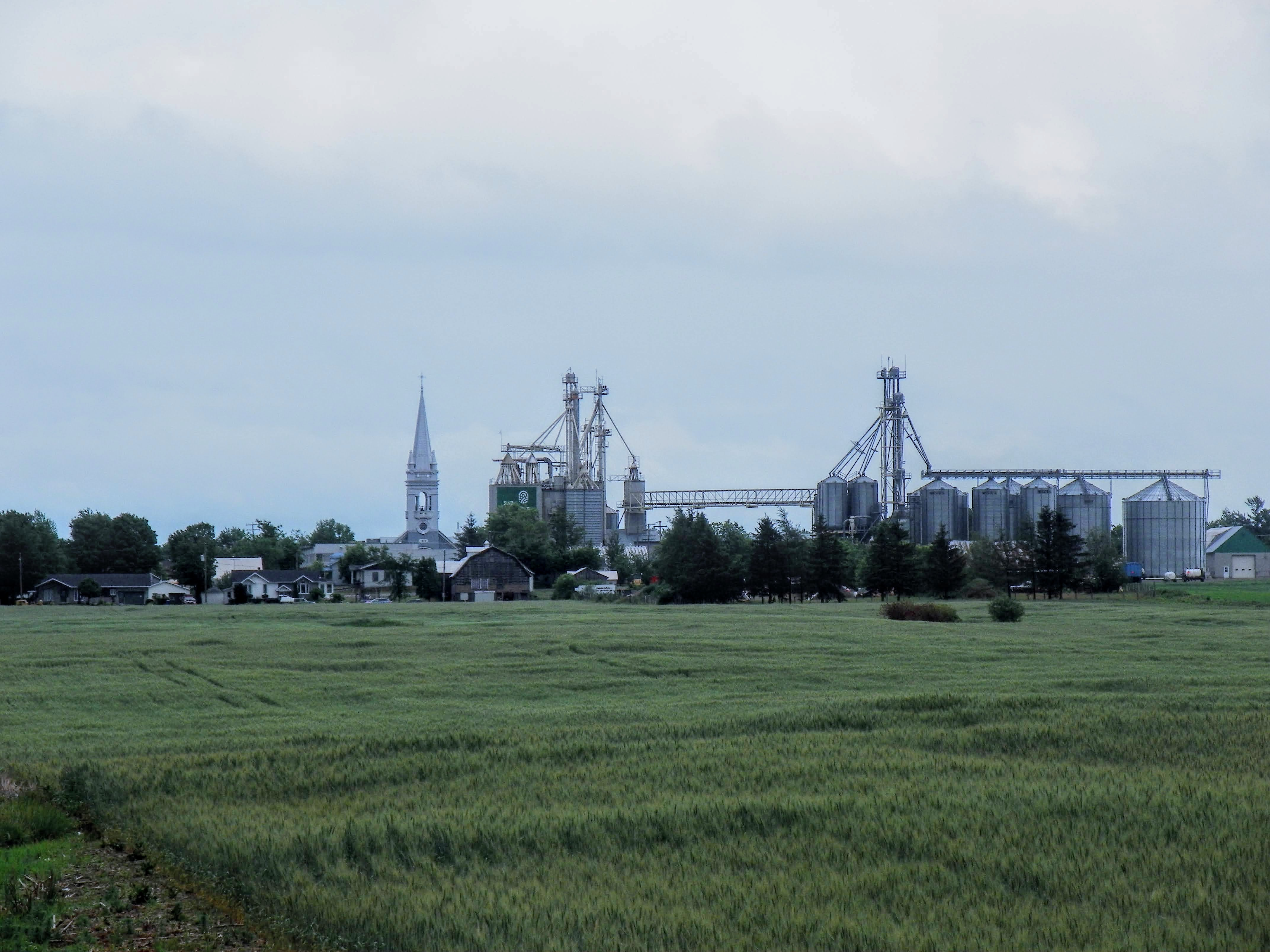 View of Saint-Narcisse-de-Beaurivage, Québec from rang Sainte-Anne.